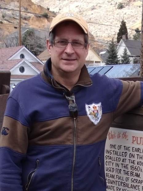 Author Nicholas Nicastro in 2012